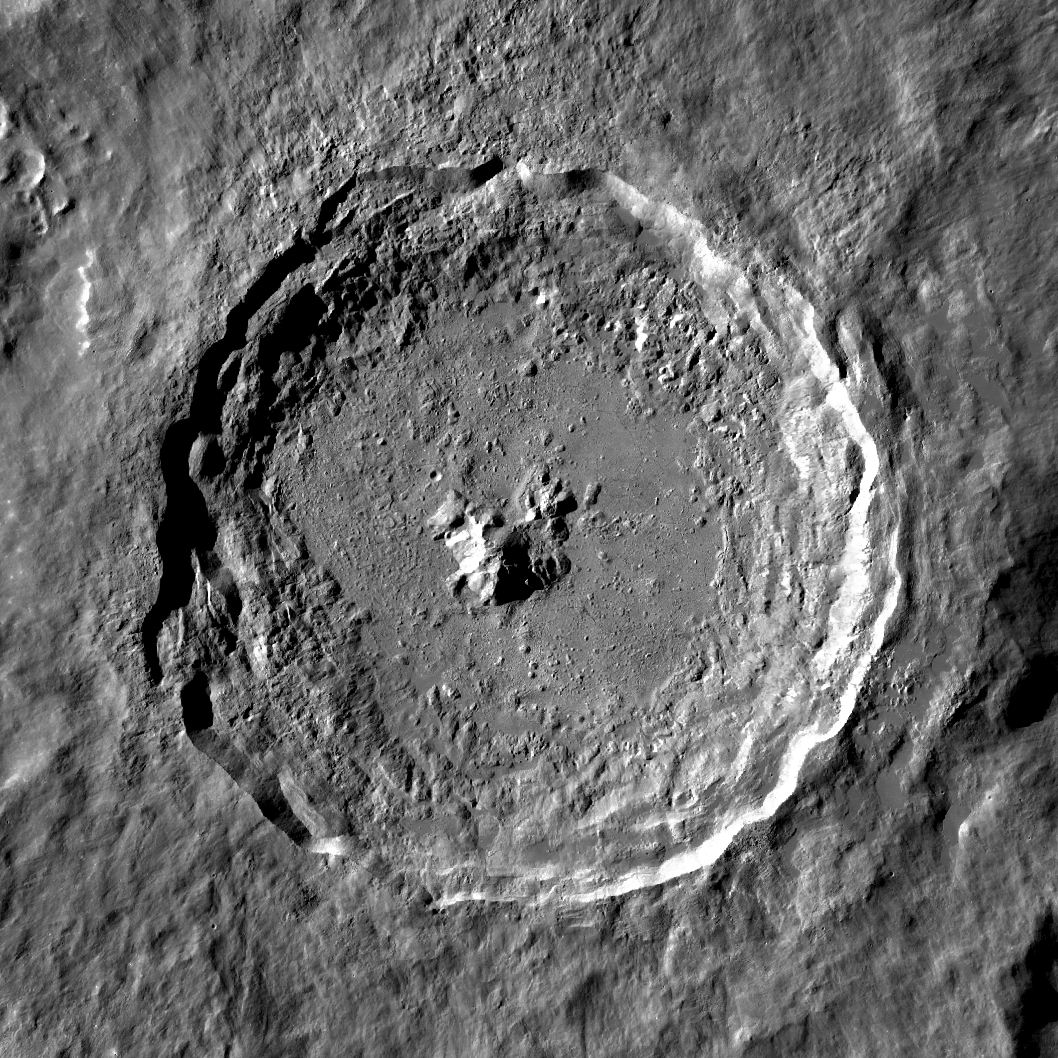 Tycho crater on the Moon: mosaic of images, made by Lunar Reconnaissance Orbiter (Wide Angle Camera). Width of the image is 120 km.